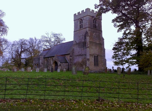 St Peter's parish church, Tyringham, Buckinghamshire, seen from the northwest